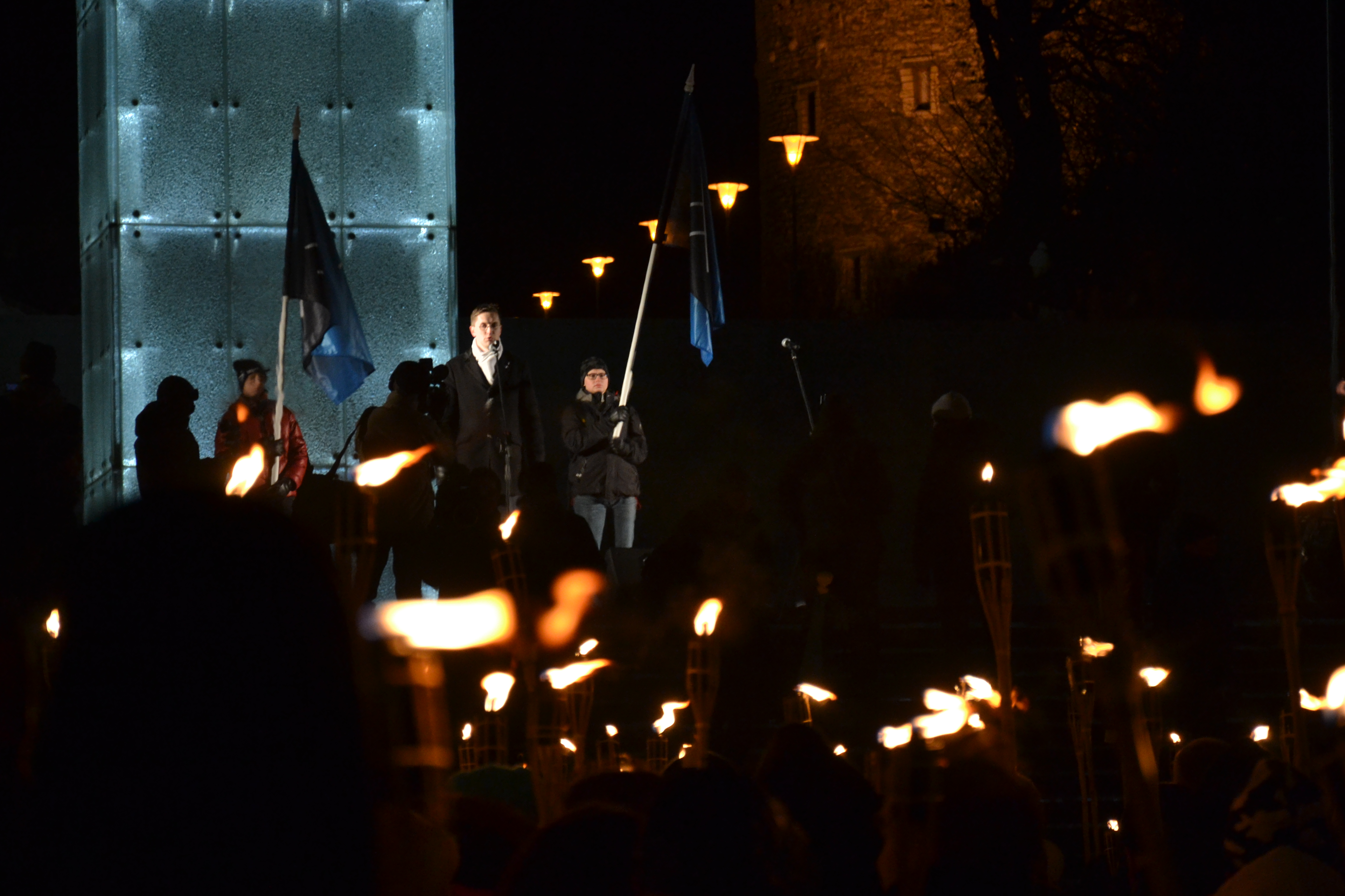 Estonian nationalists on the annual march through the Old Town of Tallinn